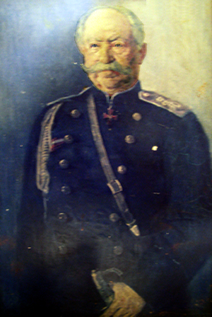 Portrait of Count Nikolay Pavlovich Ignatyev